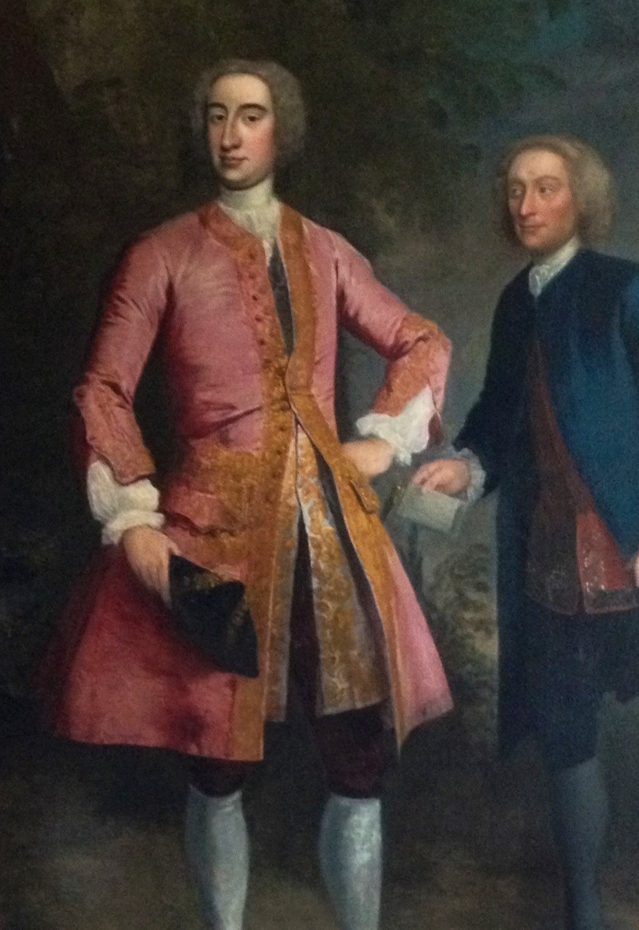 Richard Fitzgerald, 21st Knight of Glin "the Duellist" receiving an offer to duel proffered by his servant.